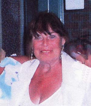 ANGLAIS